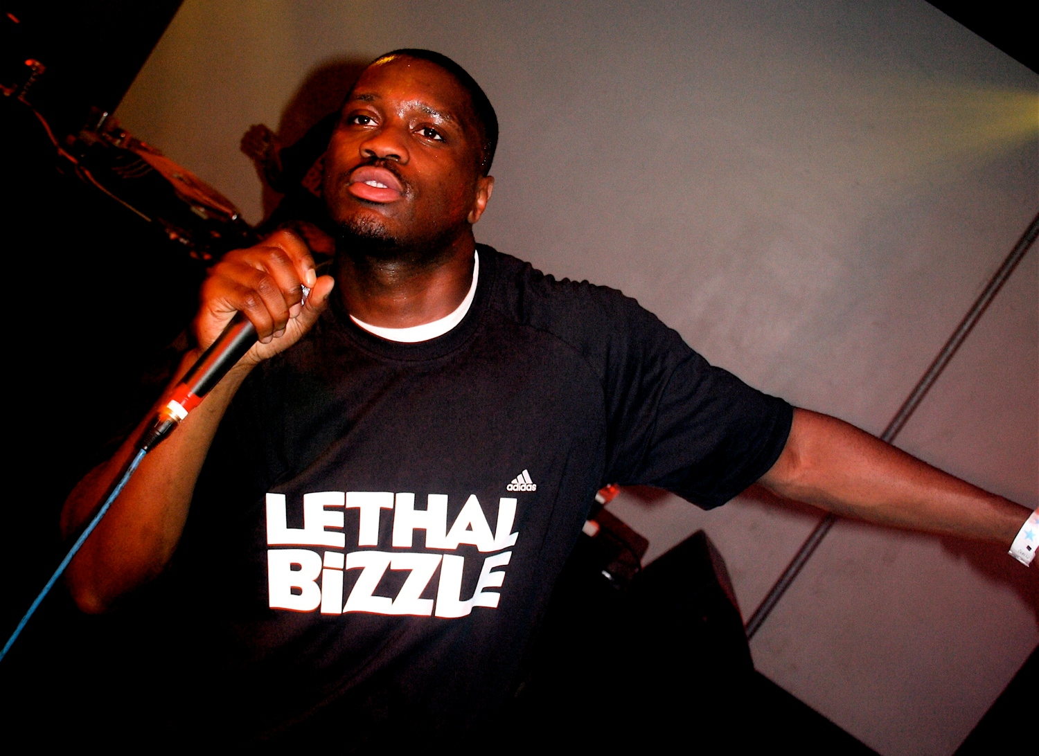 A cropped version of the file File:Lethalbizzle2.jpg.